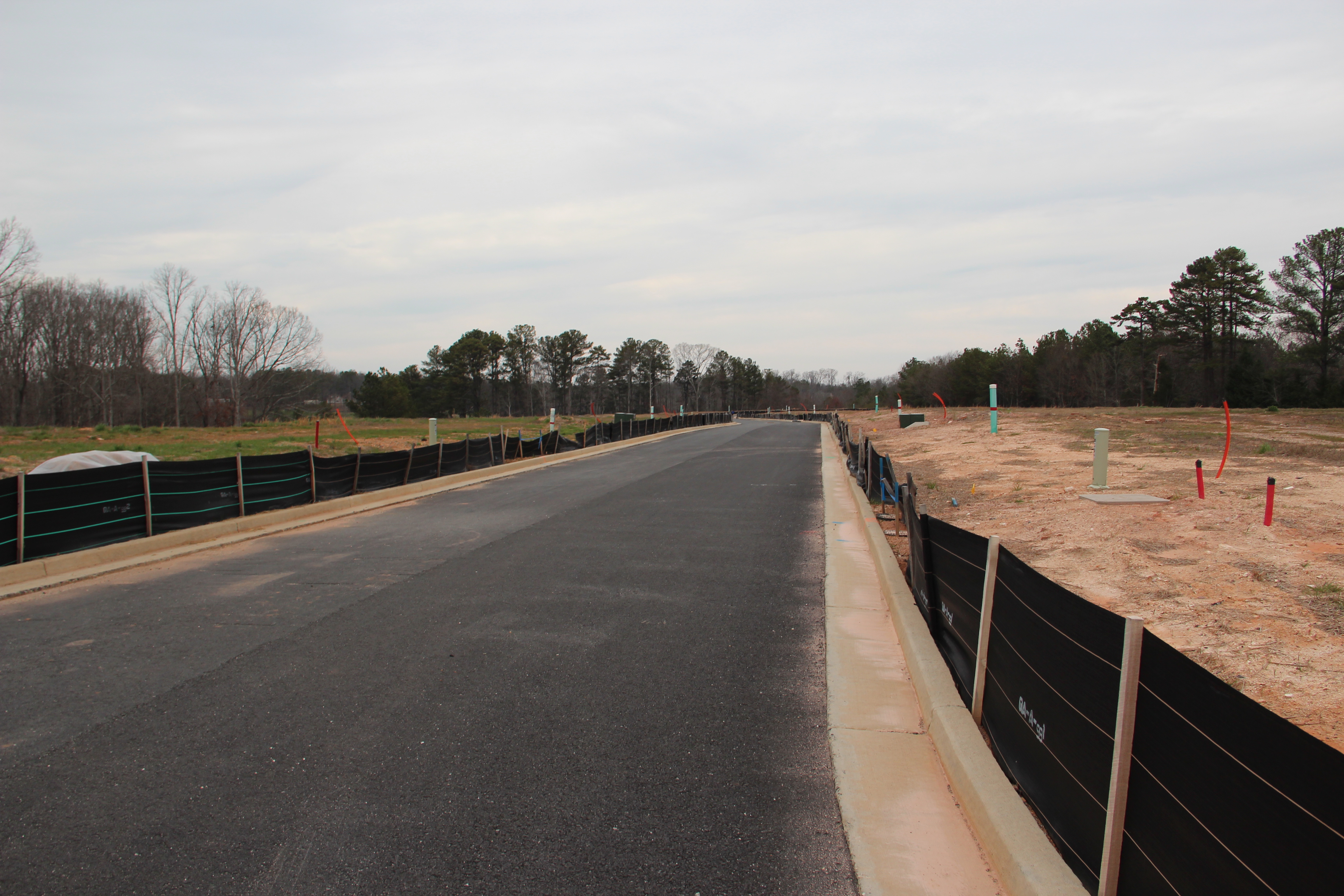 Former location of Mathis Airport, currently being redeveloped as a subdivision.